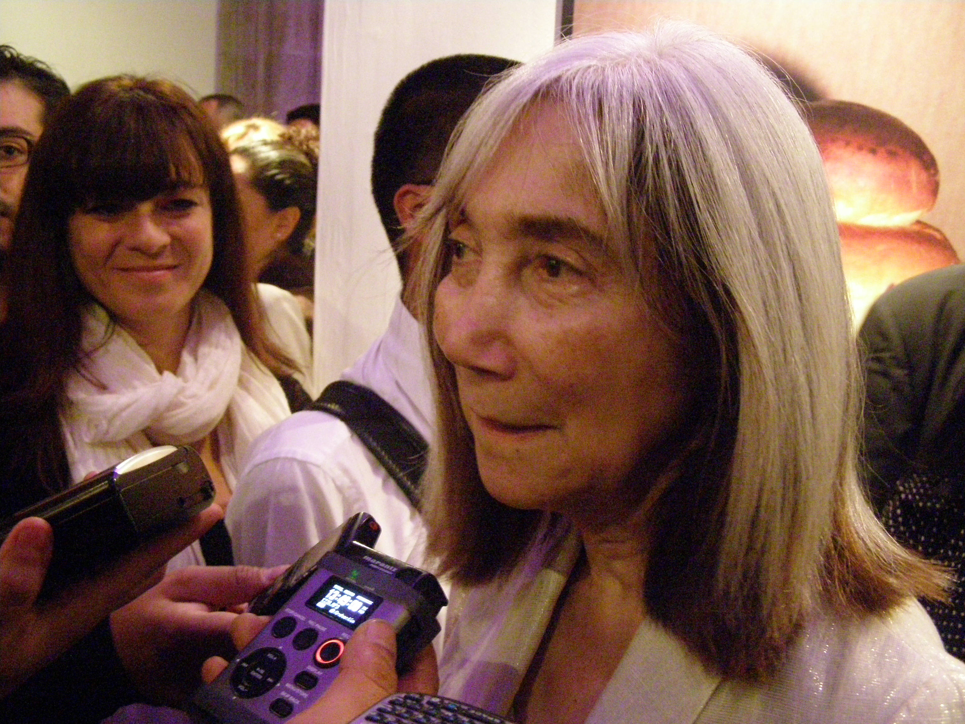 Maria Kodama, widow of Argentine writer Jorge Luis Borges.